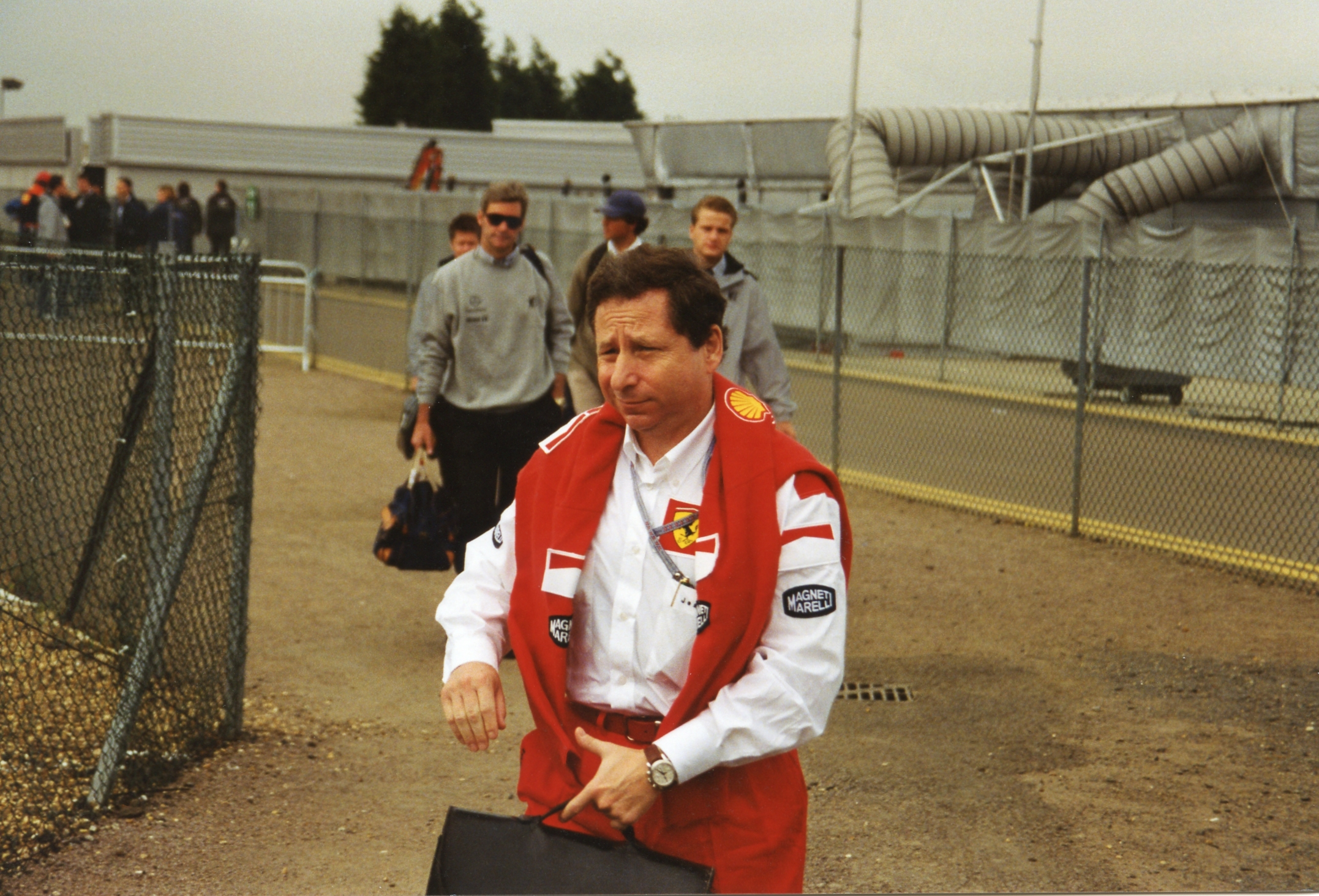 Ferrari Team Principal Jean Todt arriving at Silverstone for the 1997 British Grand Prix